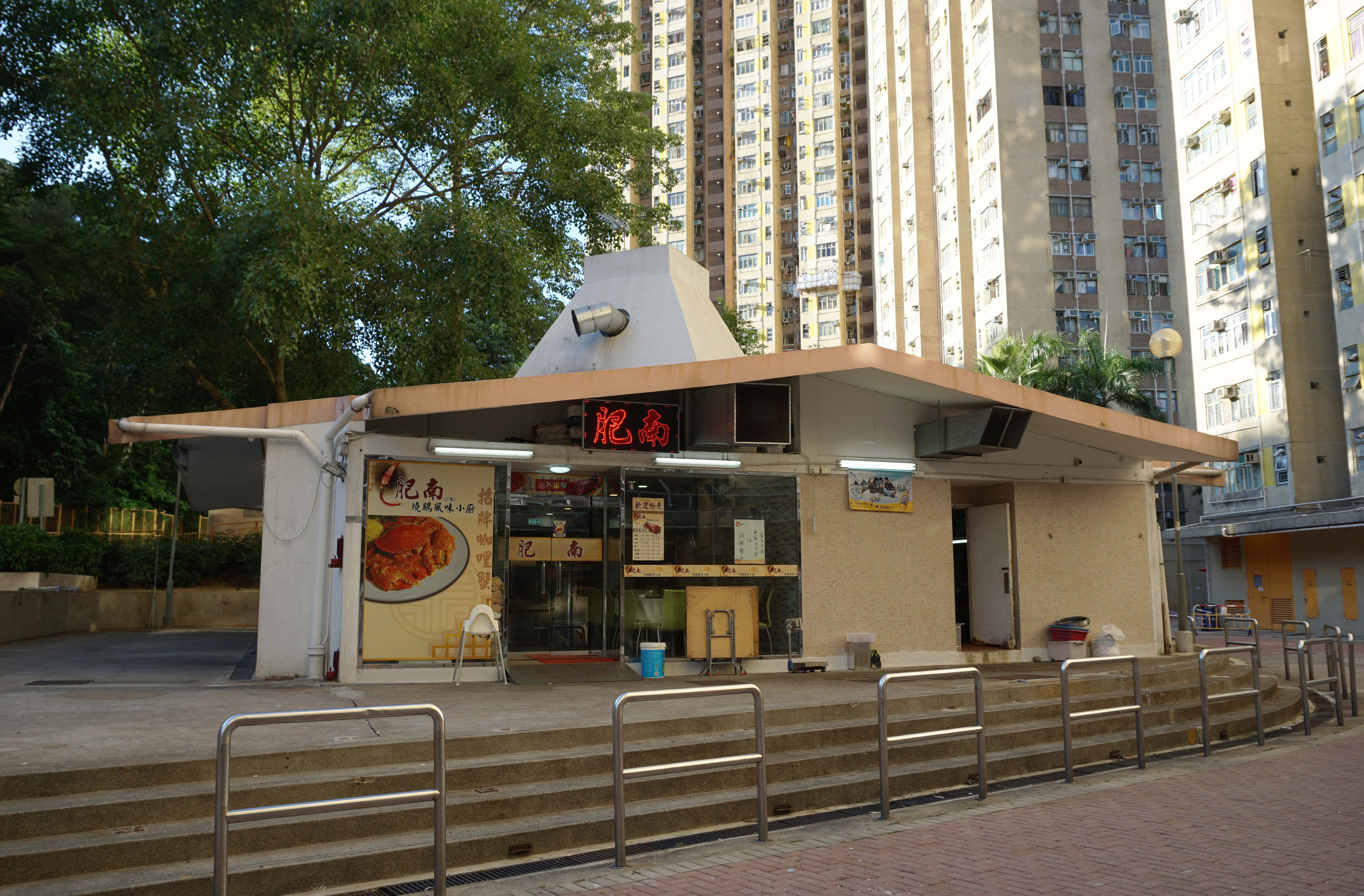 Shan King Estate in Tuen Mun, Hong Kong.